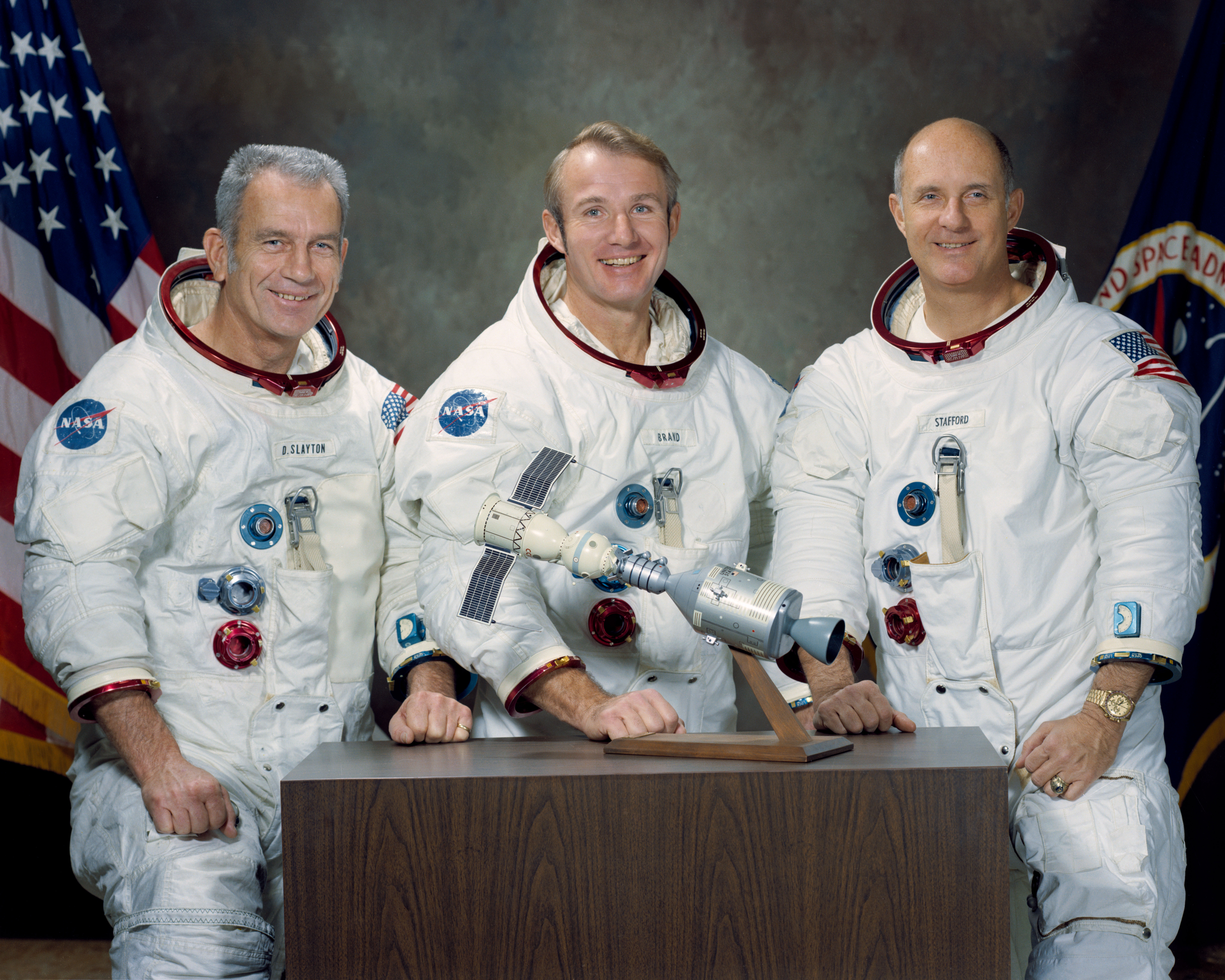 These three NASA astronauts are the American flight crew for the 1975 Apollo Soyuz Test Project ASTP mission. The prime crewmen for the joint U.S.-Soviet Union space flight are, left to right, Donald K. Slayton, docking module pilot; Vance D. Brand, command module pilot; and Thomas P. Stafford, commander. They are in their space suits with a model of the Apollo-Soyuz capsules in docking mode in front of them. Image ID: S74-15241